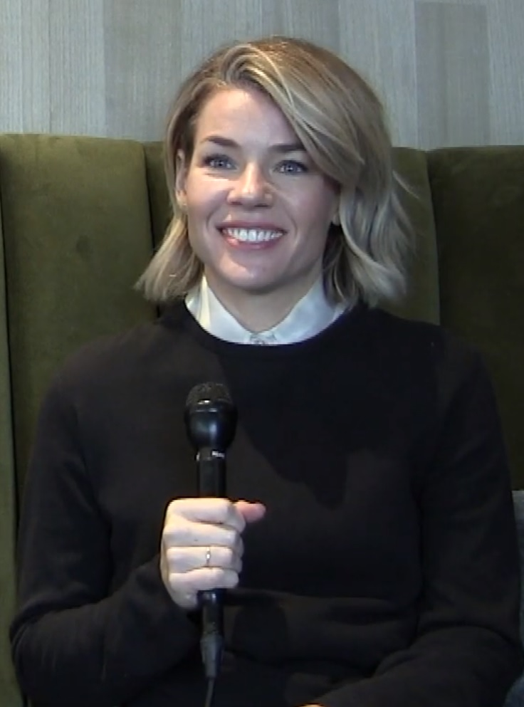 Spencer Fornaciari of The MacGuffin interviews writer/director Elizabeth Chomko from the drama What They Had.